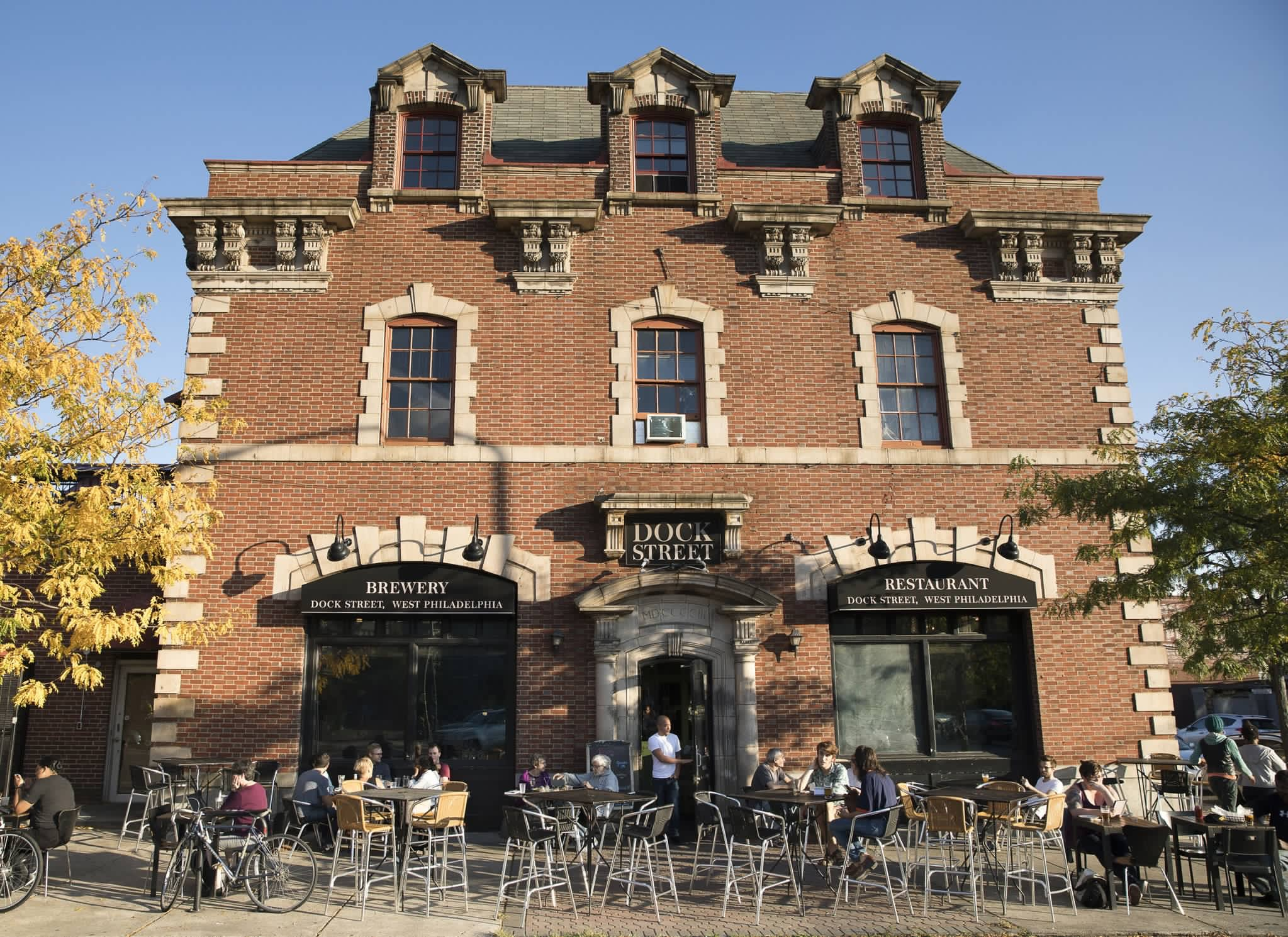 Dock Street Brewery in West Philadelphia, PA